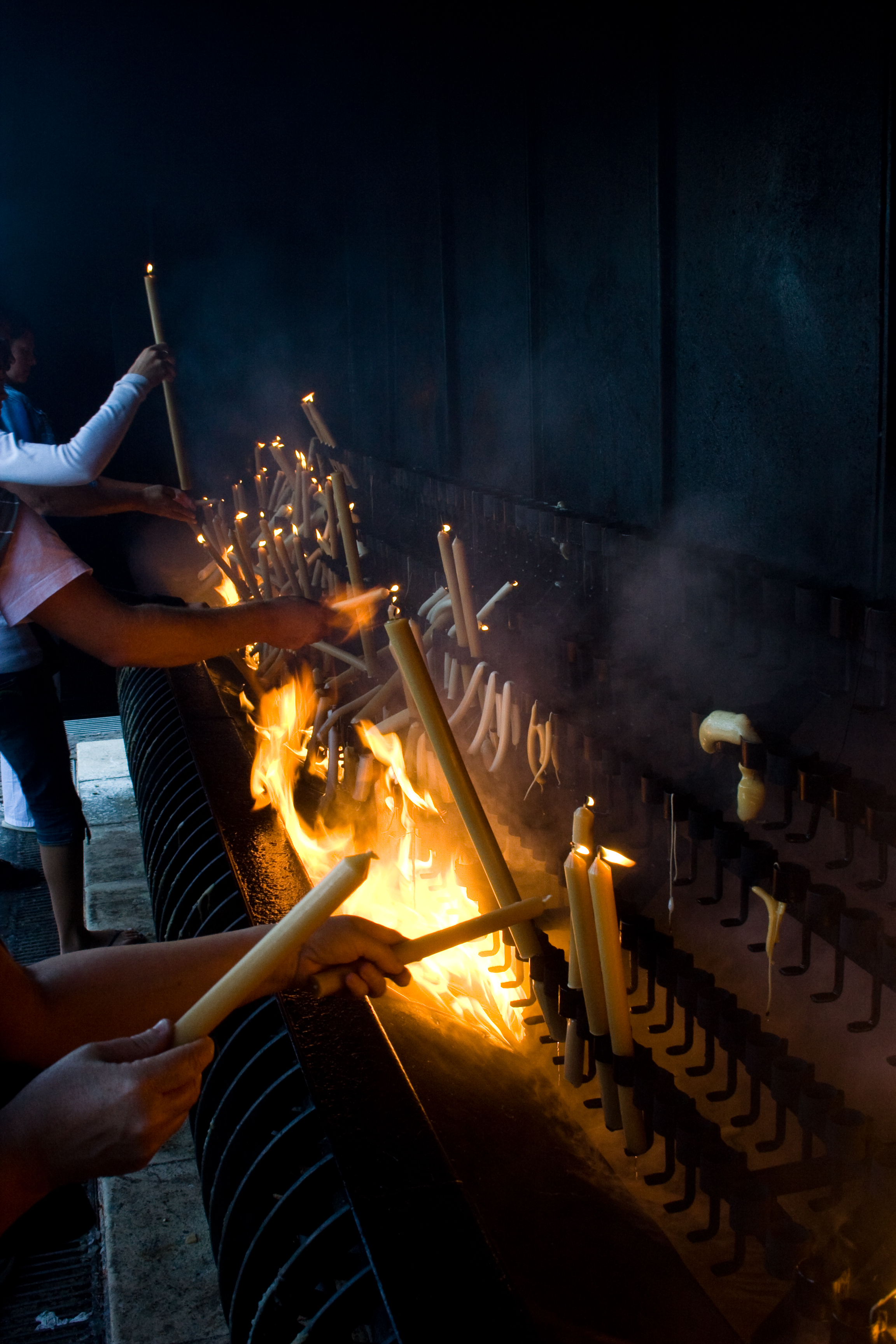 People burning candles in Fatima, Portugal.